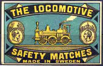 A Locomotive Safety Matches label (Sweden, ca. 1903)